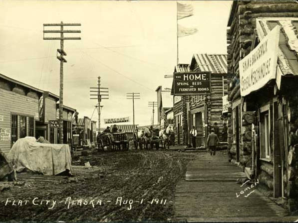 "Flat City - Alaska - Aug -1- 1911" Postcard. Original photograph size: "3 3/8" x 5 3/8"